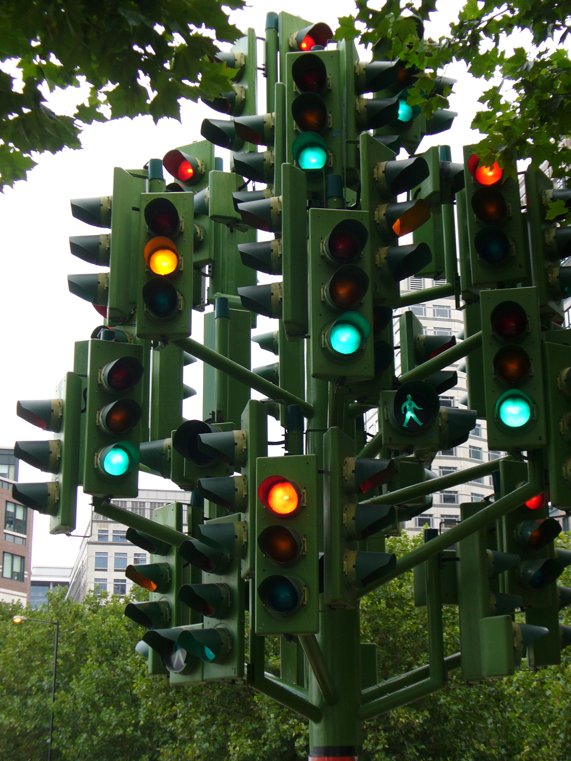 multiple traffic lights at a London roundabout (Westferry Road, Docklands)